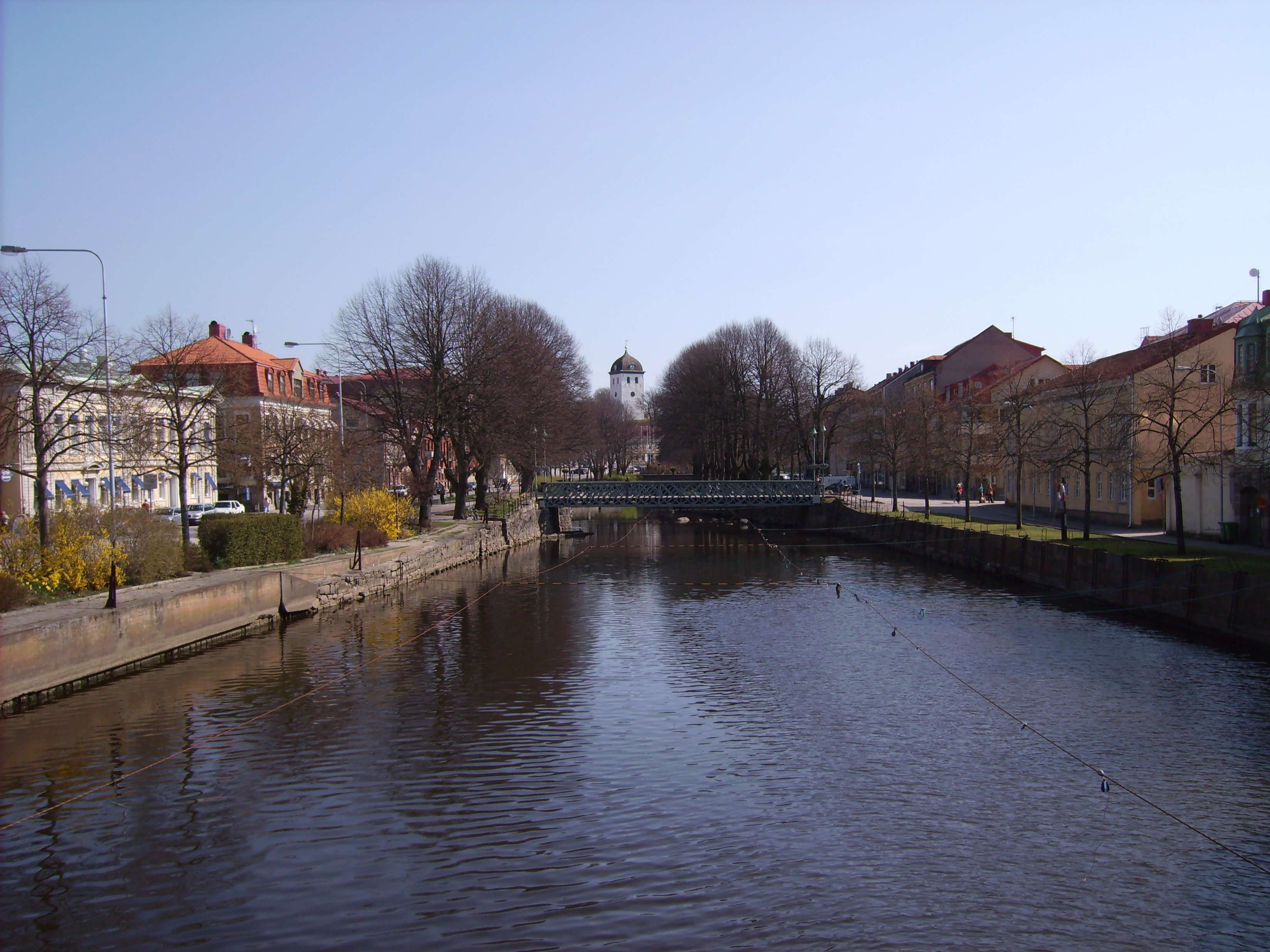 Photo by Harri Blomberg.